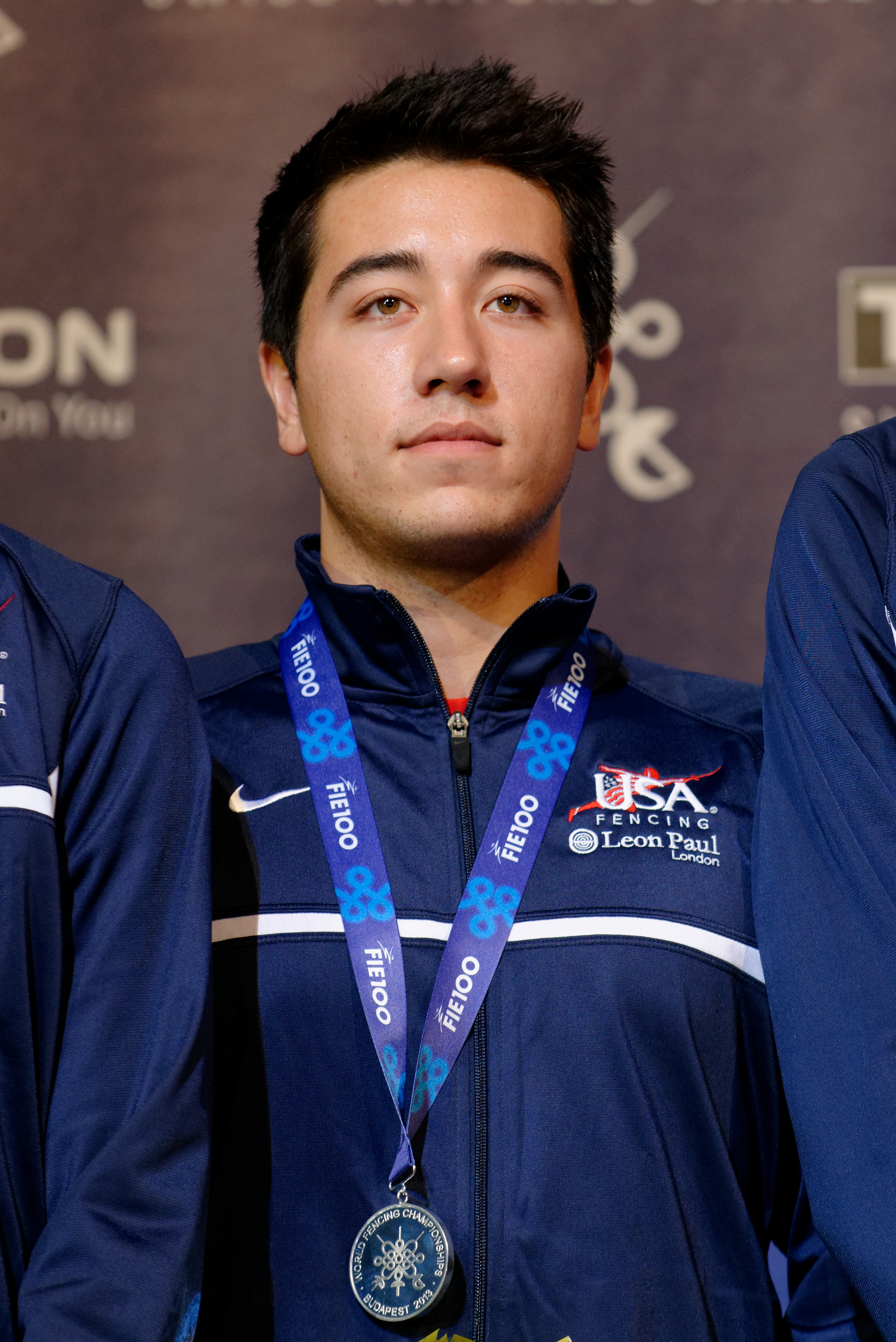 Gerek Meinhardt of the United States stands on the men's team foil podium of the 2013 World Fencing Championships 2013 at Syma Hall in Budapest, 12 August 2013.